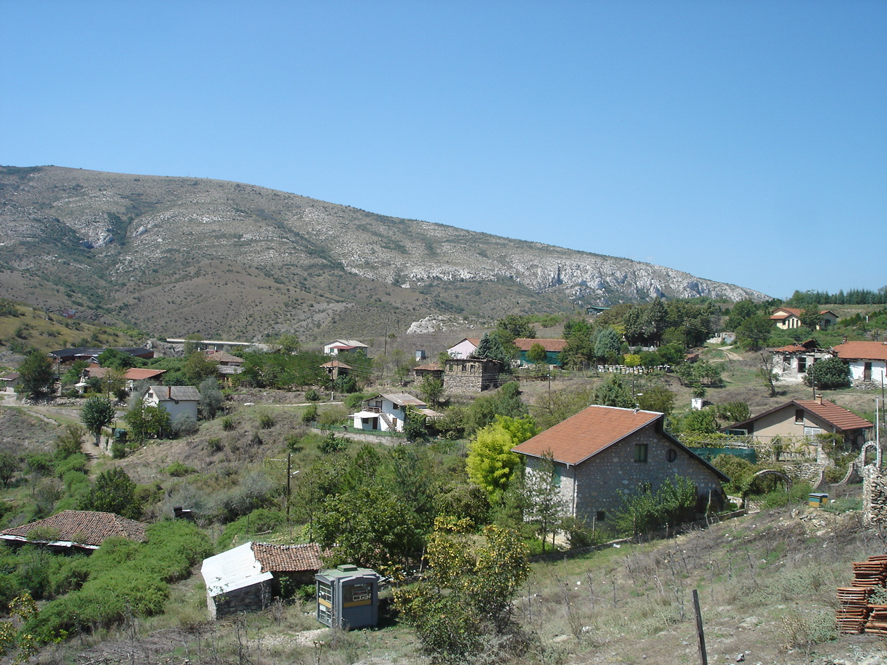 village of Novachani, near Veles, Macedonia